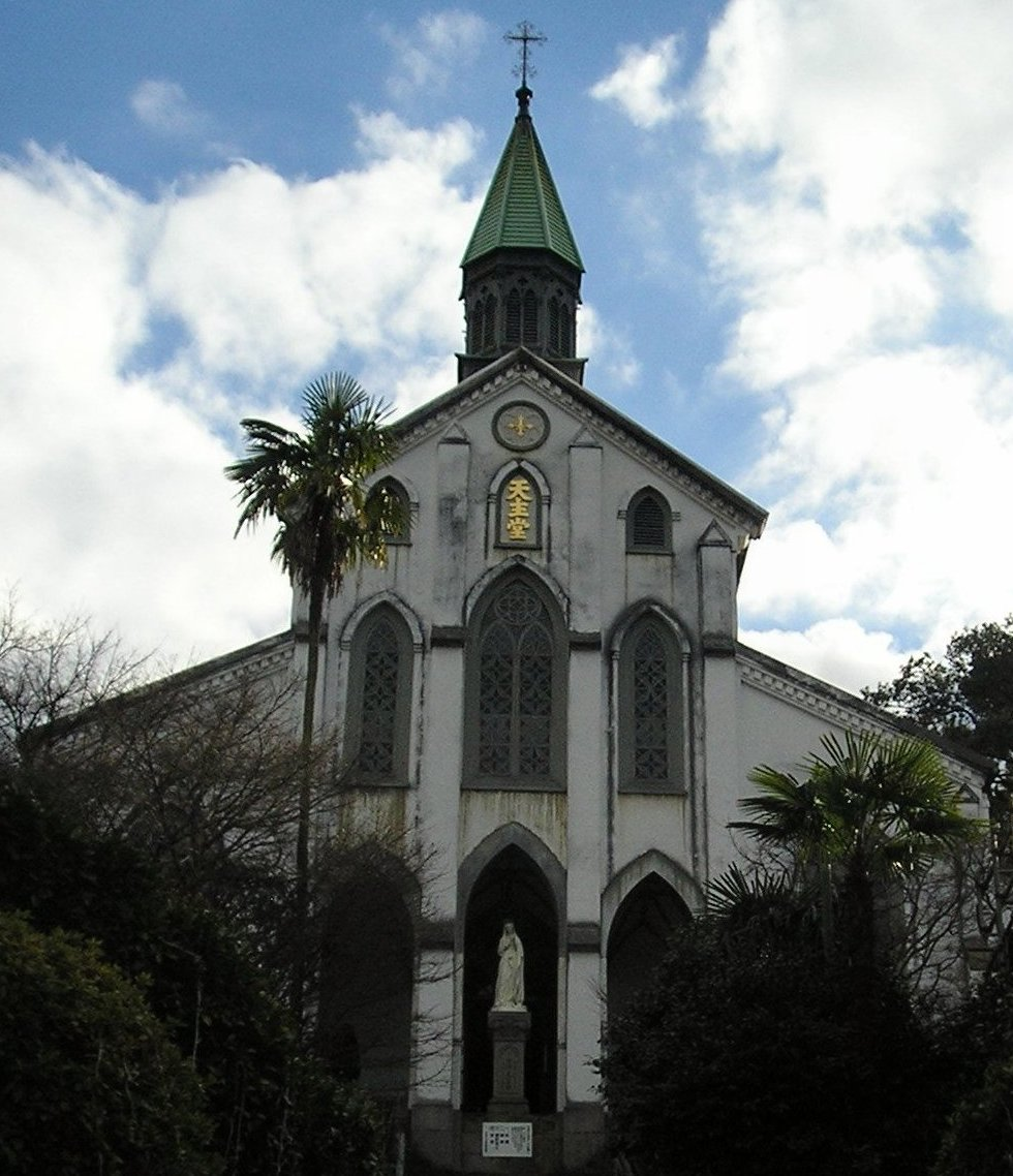 Oura Catholic Church, Nagasaki, Japan